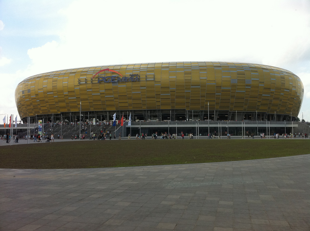 PGE Arena Gdańsk